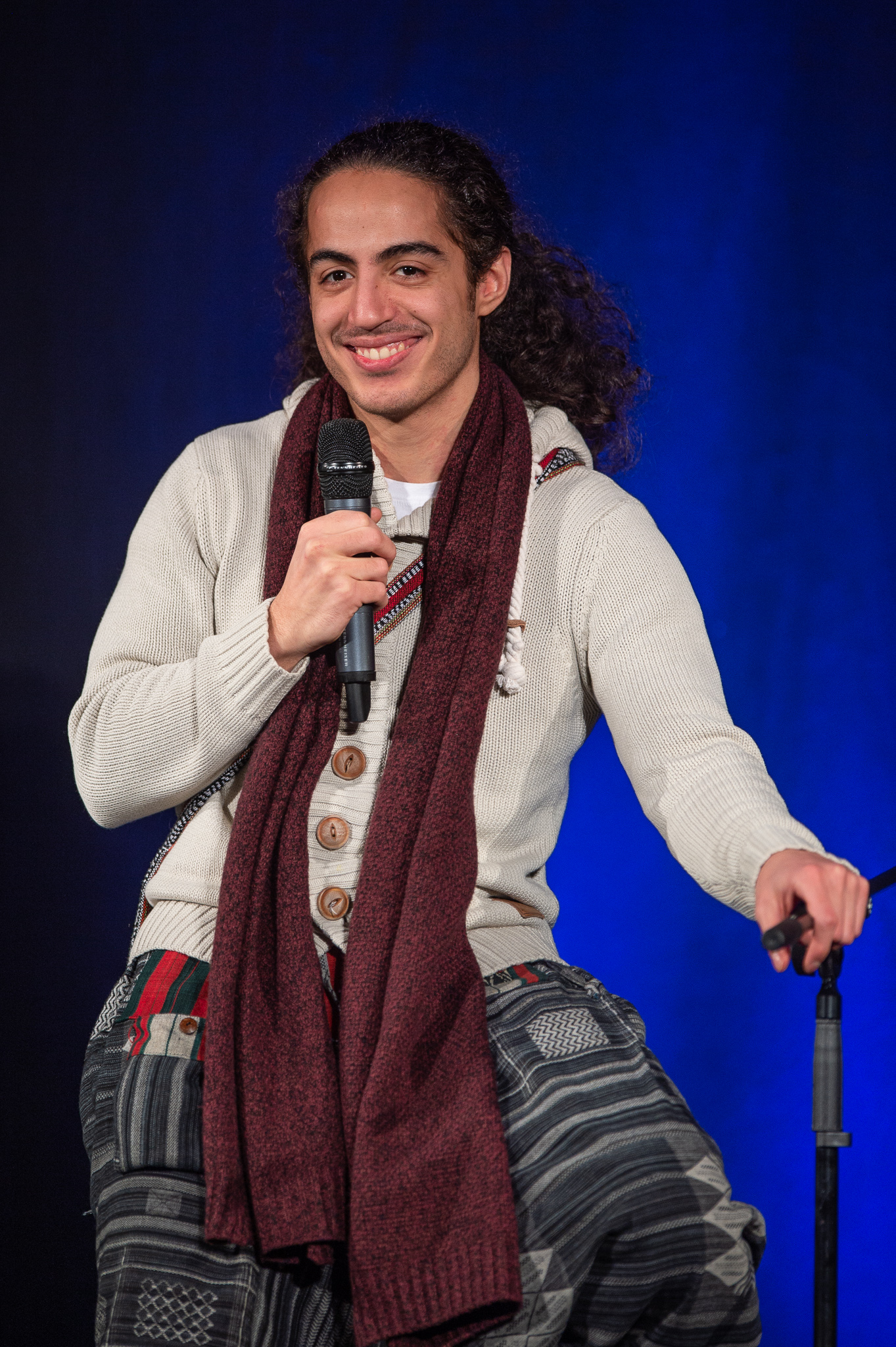 Comedy,Concertbüro Franken,Fucking Famous,Gutmann am Dutzendteich,Livecomedy,Masud Akbarzadeh,Stand-up-Comedy